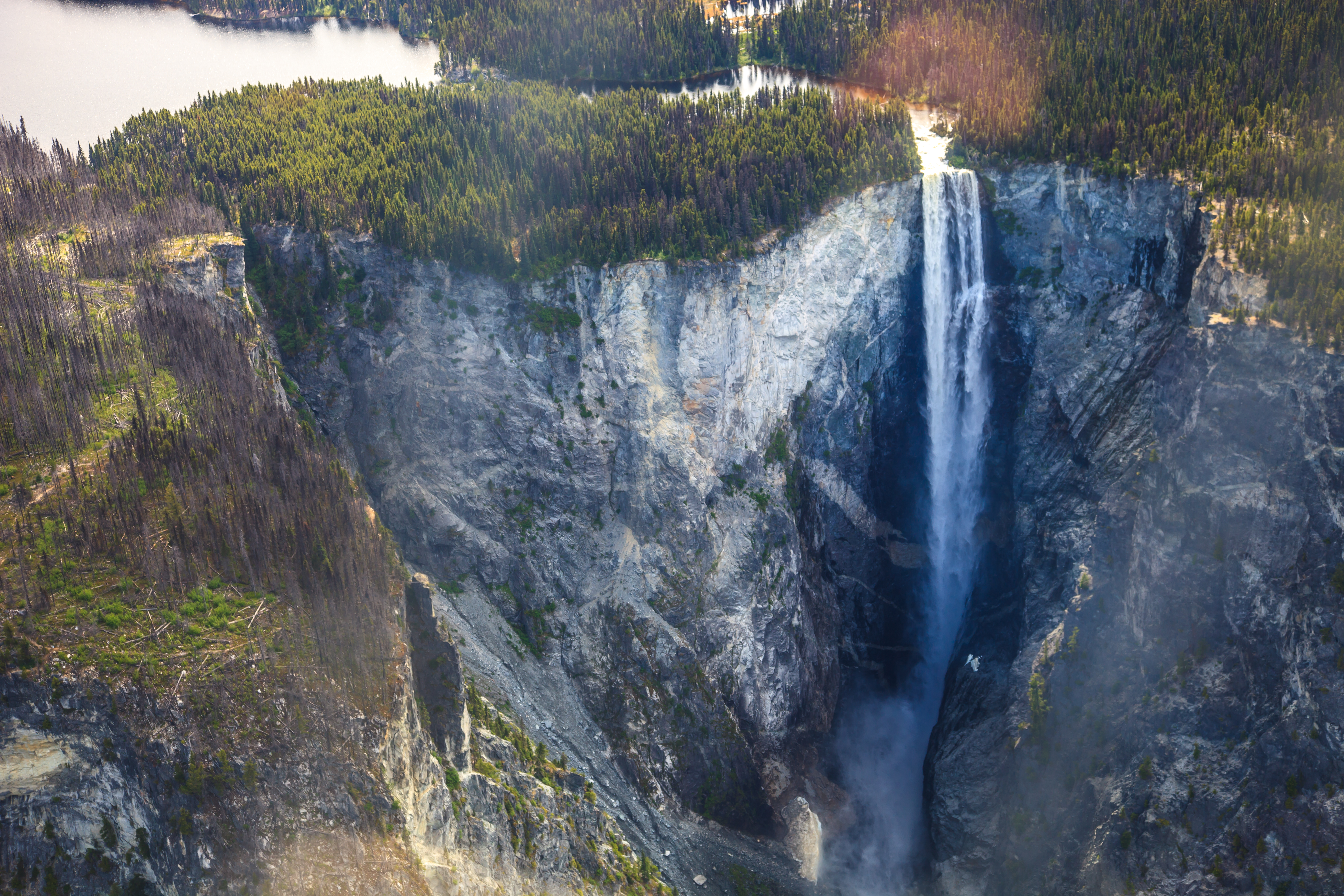 Bella Coola trip...Hunlen falls & Turner Lake from the air